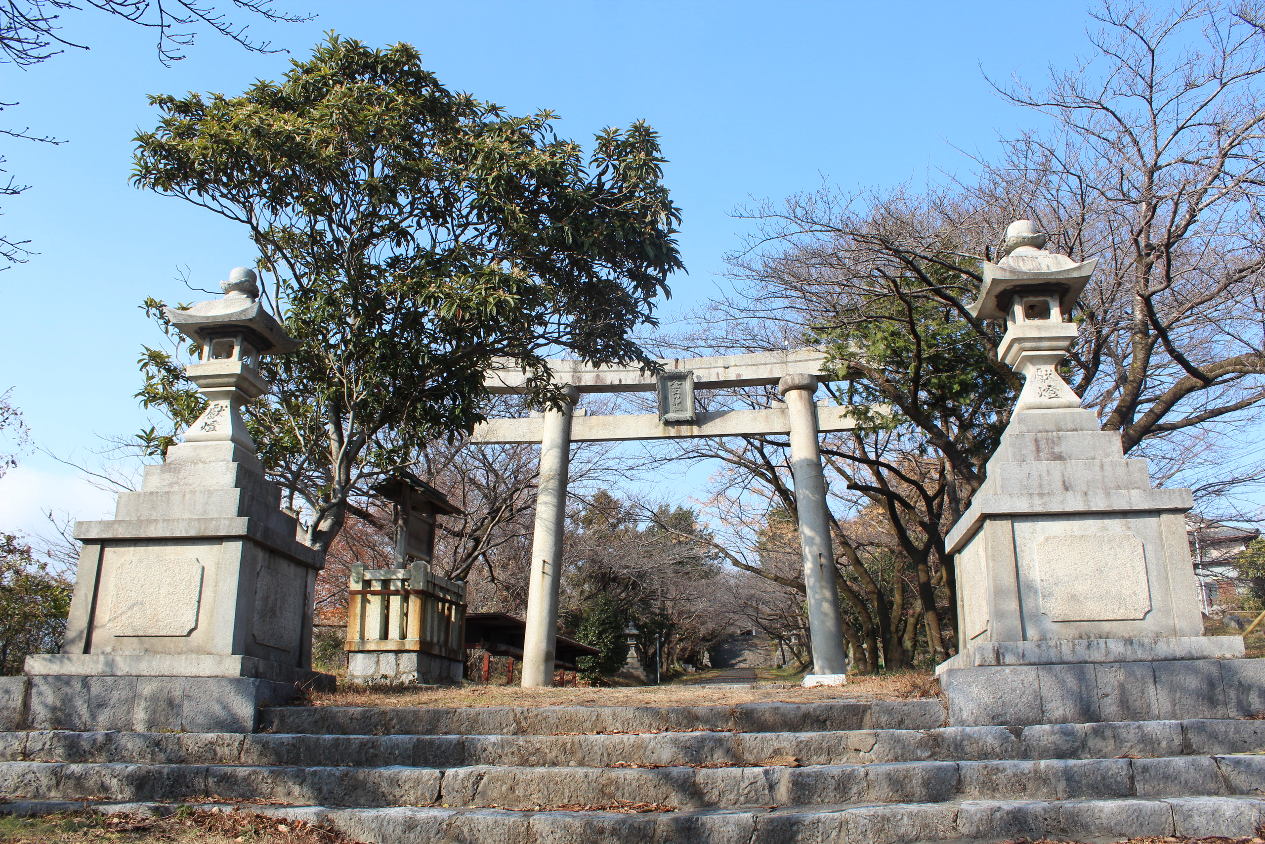 Torii of Kanabusan Shinto shrines